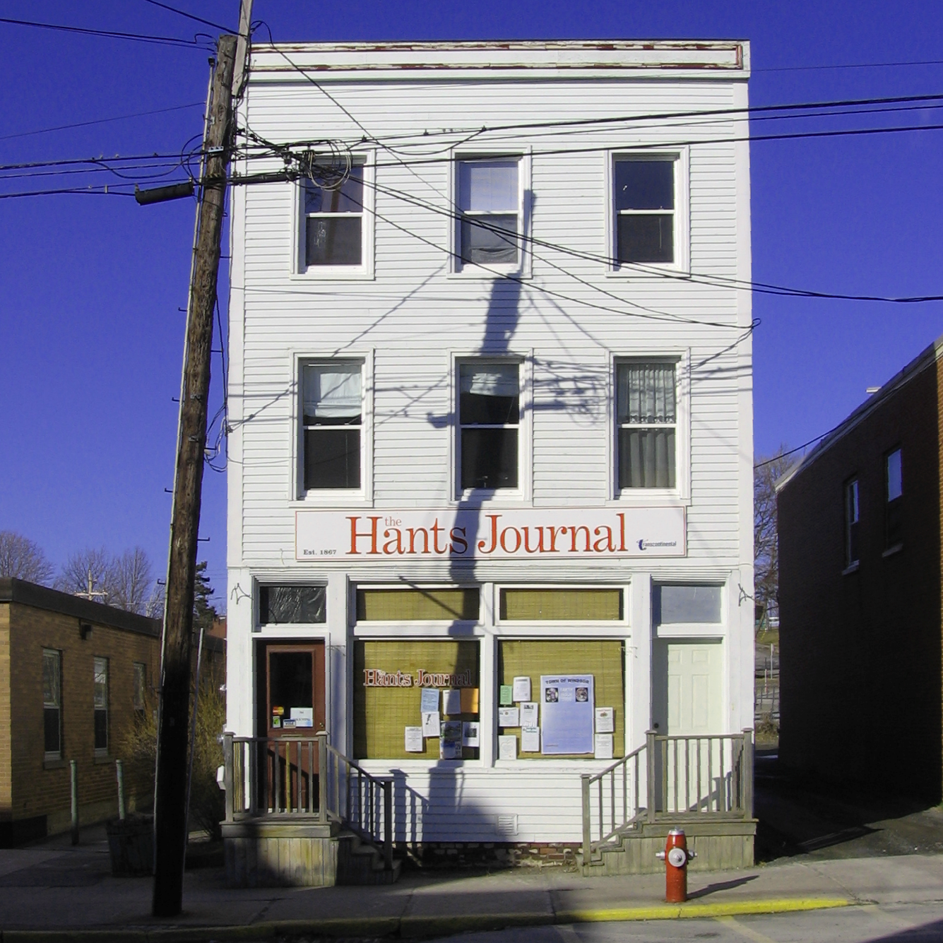 Photo - newspaper building, Windsor NS